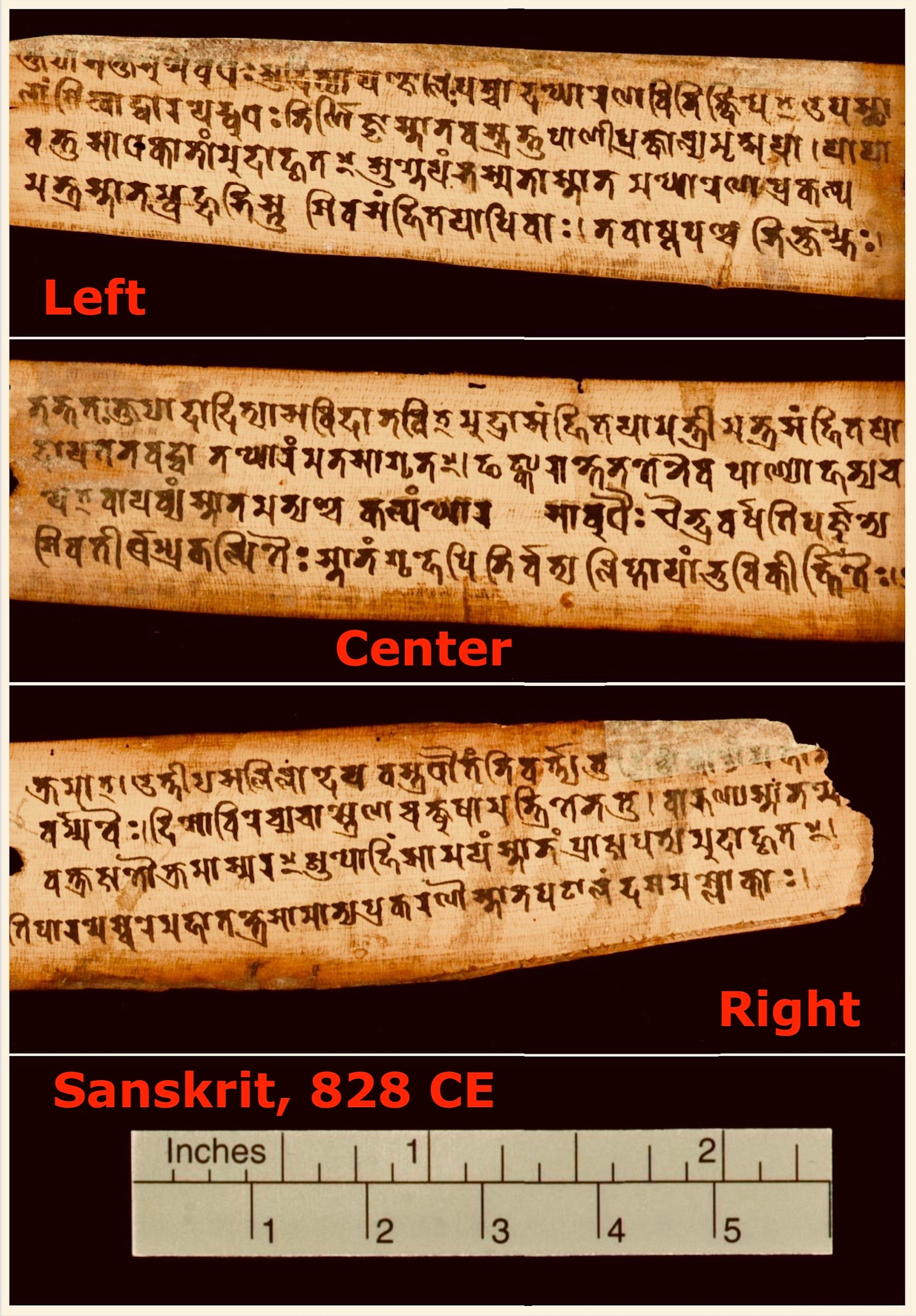 Source link: Pārameśvaratantra (MS Add.1049.1, University of Cambridge Collections) Description paraphrased from the source: This is one of the oldest known dated Sanskrit manuscripts from South Asia. Discovered in Nepal, it was created on a palm leaf and exists as a bundle of written pages. According to the colophon, it was copied in the year 252, which some scholars judge to correspond to 828 CE. The bundle also includes a one-leaf fragment of a Jñānārṇavamahātantra (see Add.1049.2). The text is Pārameśvaratantra, a scripture of the Saiva Siddhanta tradition of Hinduism. This is a collection of photographs of a 1000+ years old manuscript page (2D Art). The original is preserved at the Cambridge University, UK. Wikimedia Commons PD-Art guidelines apply, since the original creator of this artwork lived many centuries ago. Any rights I have are herewith donated with Wikimedia Creative Commons 4.0 license.